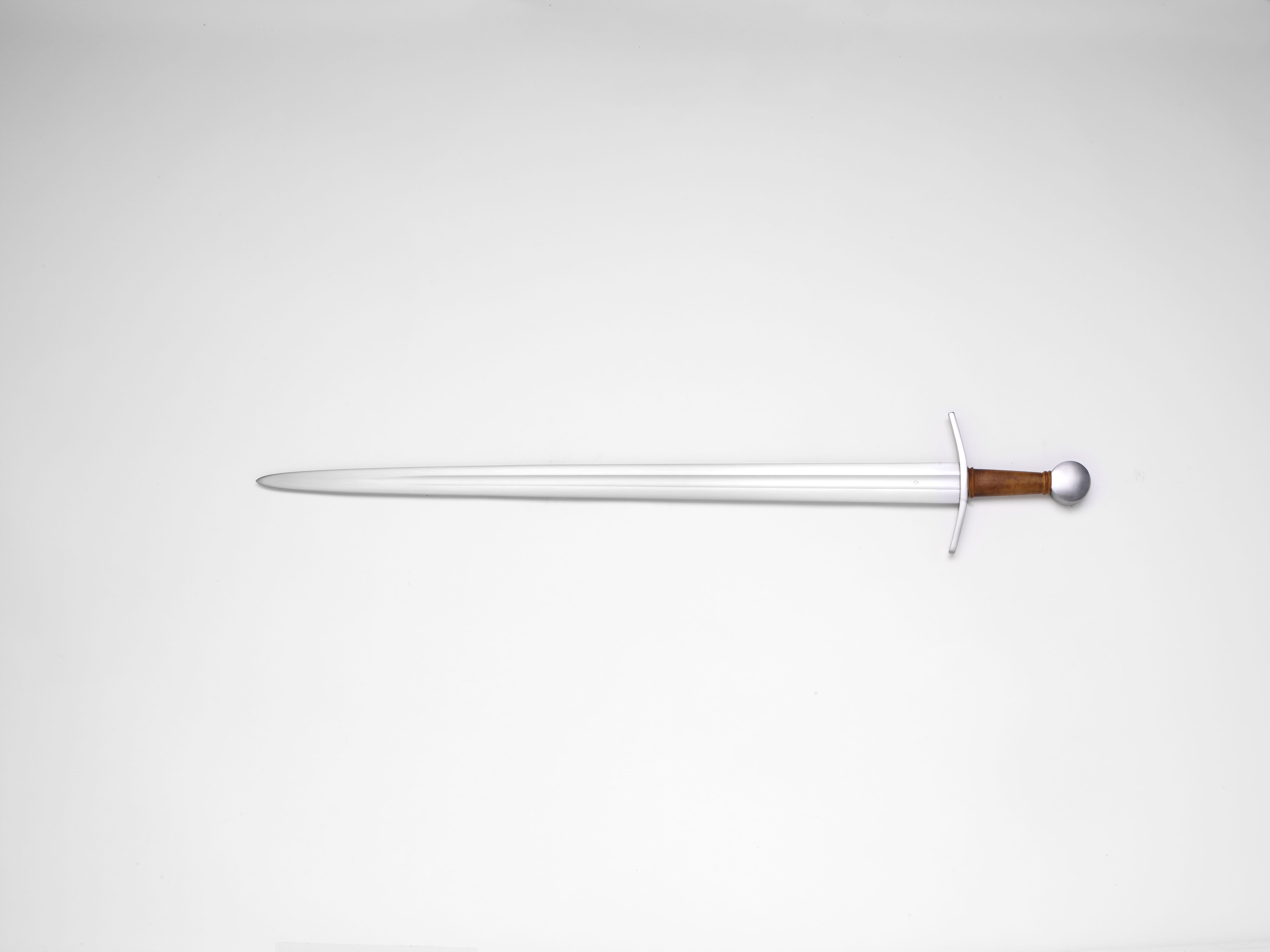 The Norman Limited Edition Medieval Sword